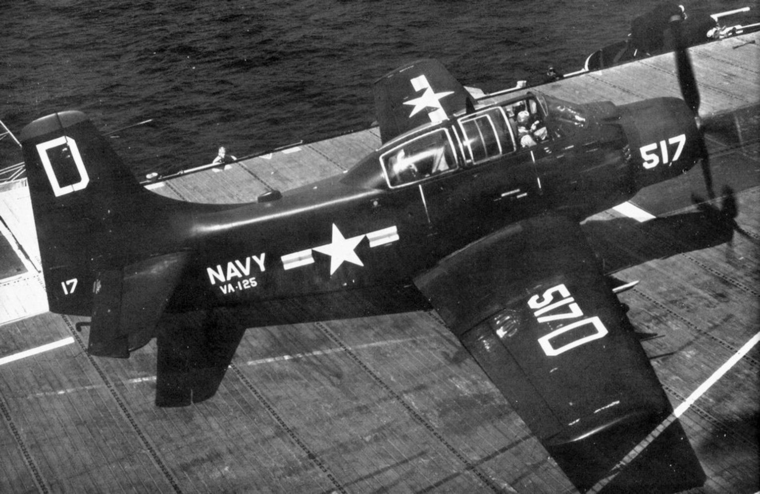 A U.S. Navy Douglas AD-5 Skyraider from Attack Squadron 125 Rough Raiders aboard the aircraft carrier USS Hancock (CVA-19). VA-125 was assigned to Carrier Air Group 12 (CVG-12) aboard the Hancock for a deployment to the Western Pacific from 10 August 1955 to 15 March 1956.